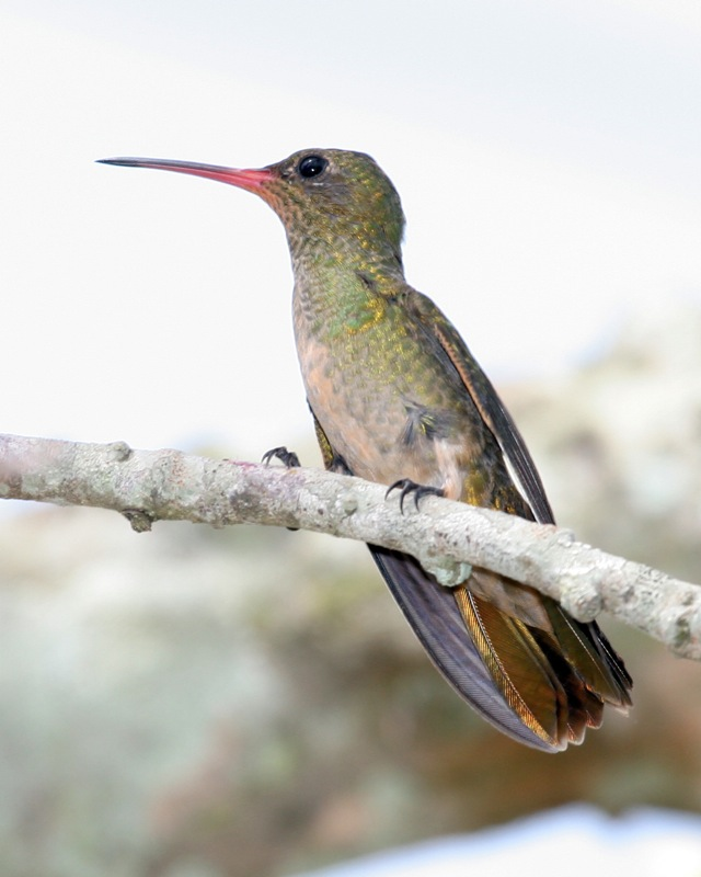 female Gilded Sapphire Hummingbird (Hylocharis chrysura) at Ibera Marshes 3rd. April 2006